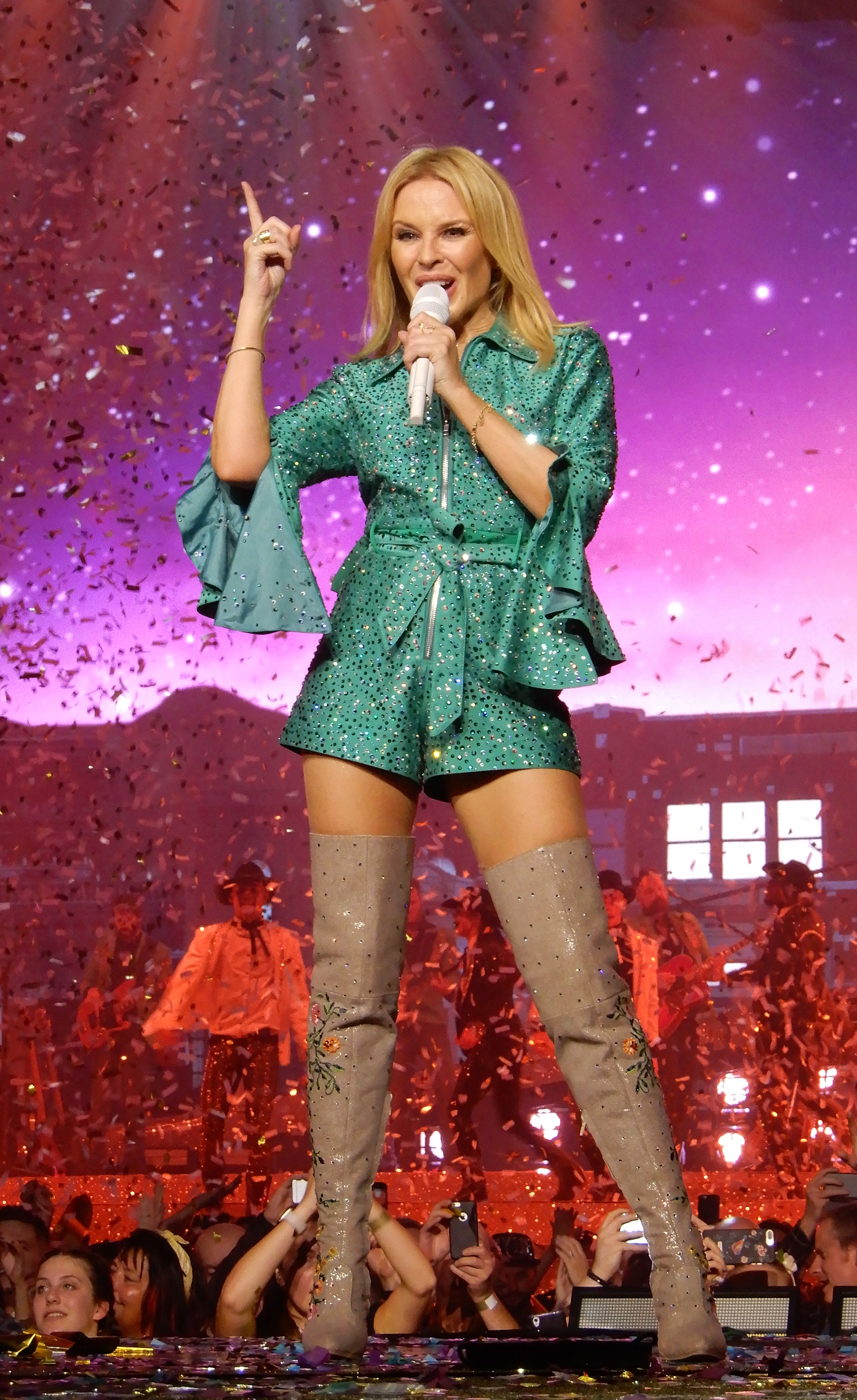 Kylie Minogue - Golden Tour - Motorpoint Arena - Nottingham - 20.09.18. - ( 44 )